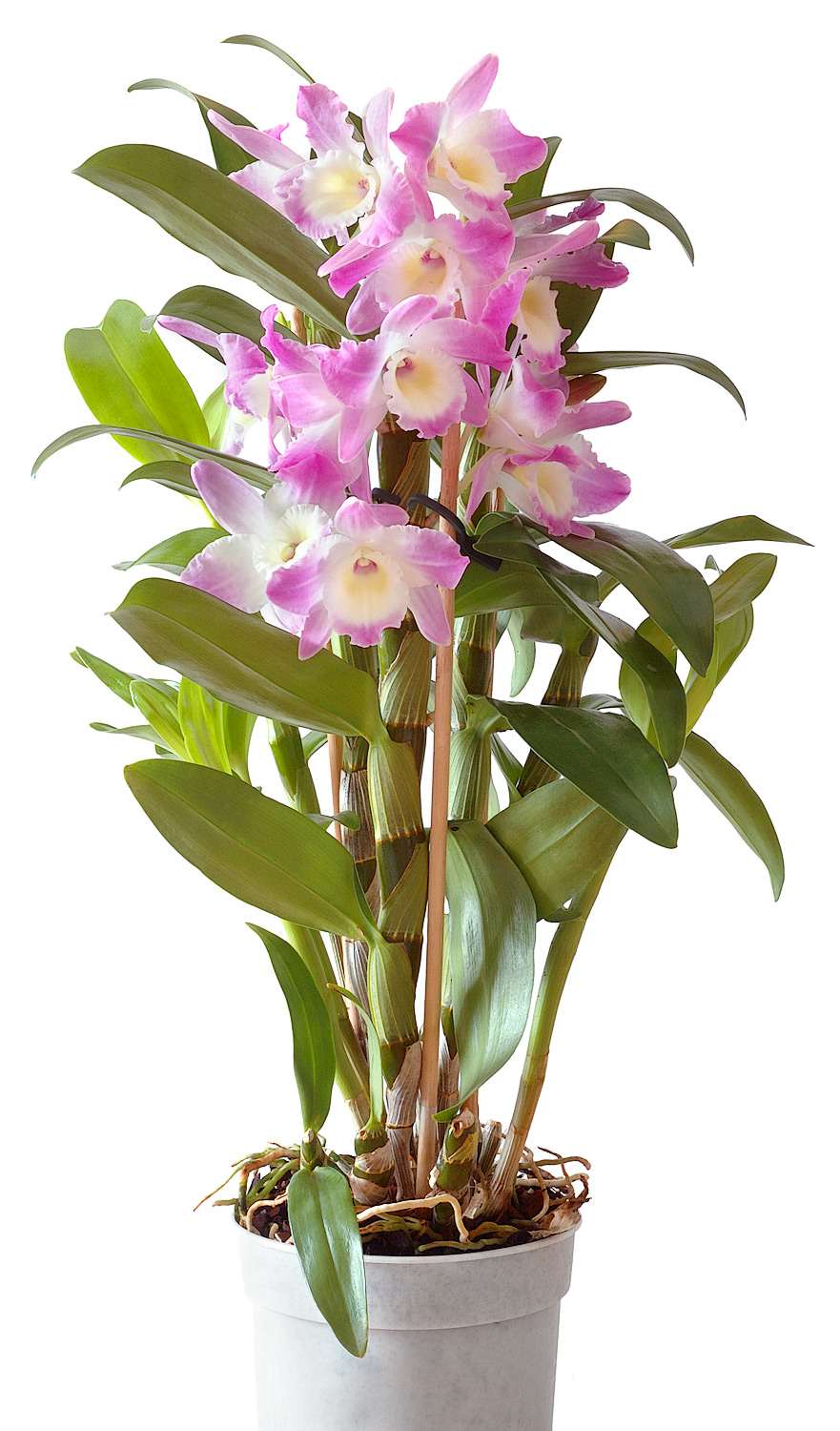 This image shows an Orchidaceae of the species Dendrobium Starclass nobilé.